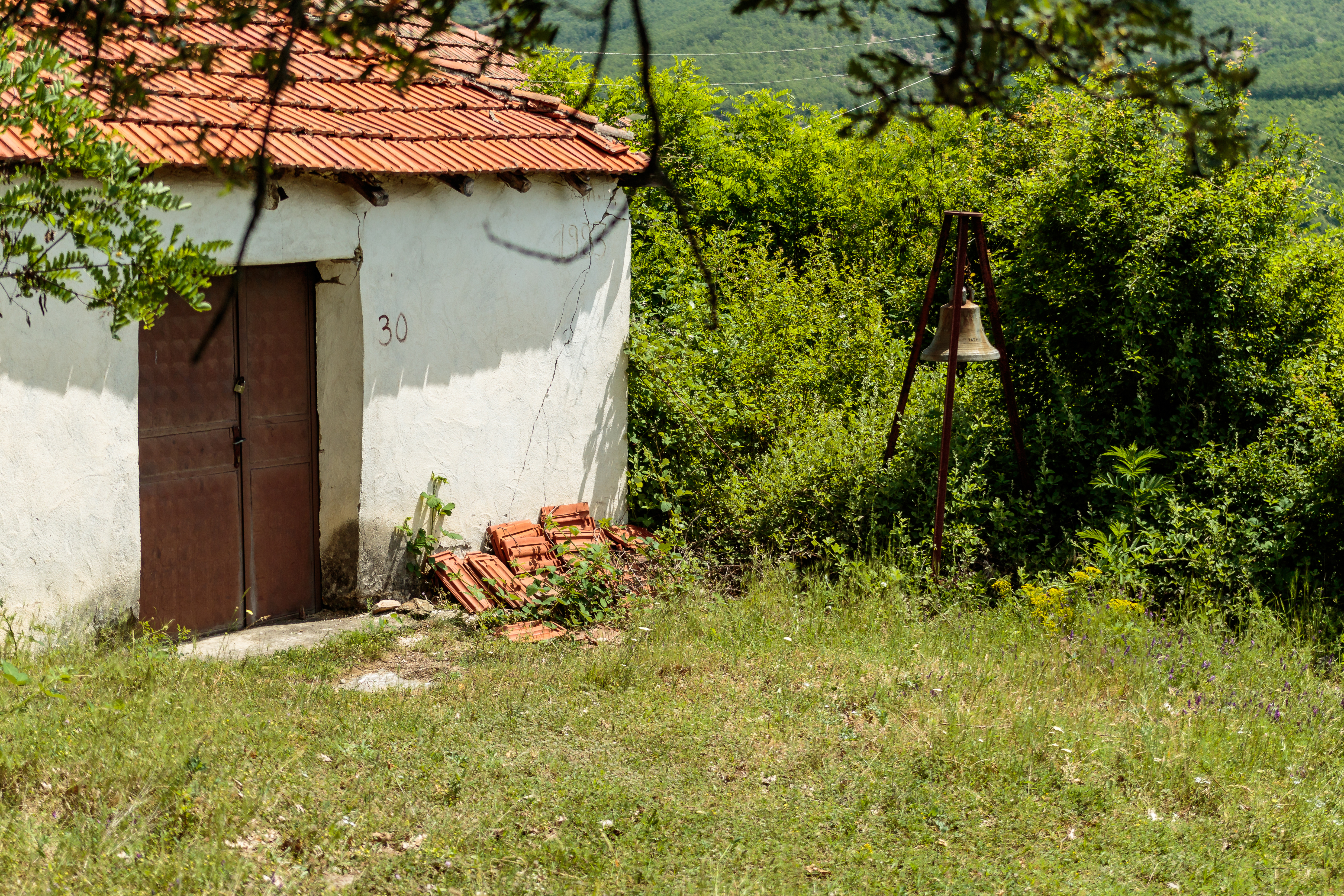 St. Michael the Archangel Church in the village Novo Selo